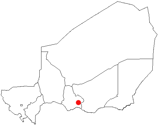 Tessaoua, Niger Location Map; created with the GIMP. Made by User:Acntx.